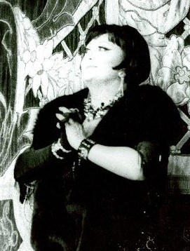 Regine Crespin in the Teatro Colon in Buenos Aires, in 1987 during in last performance.